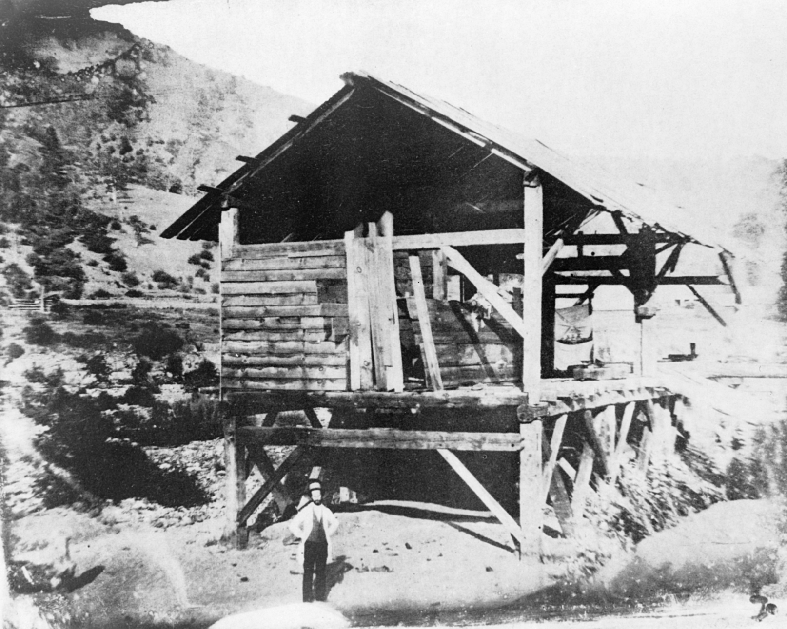 "Photomechanical reproduction of the 1850(?) daguerreotype by R. H. Vance shows James Marshall standing in front of Sutter's sawmill, Coloma, California, where he discovered gold." Person depicted is most likely not actually Marshall.